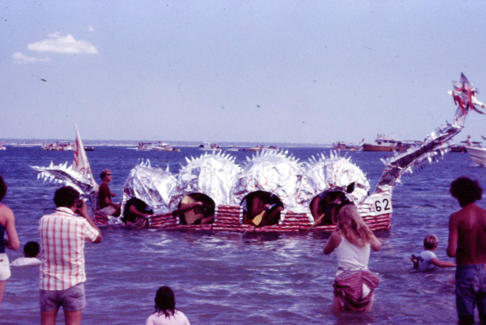 One of the many entrants in Darwin's 1977 Beercan Regatta. The Regatta is held annually on Mindil Beach in August.